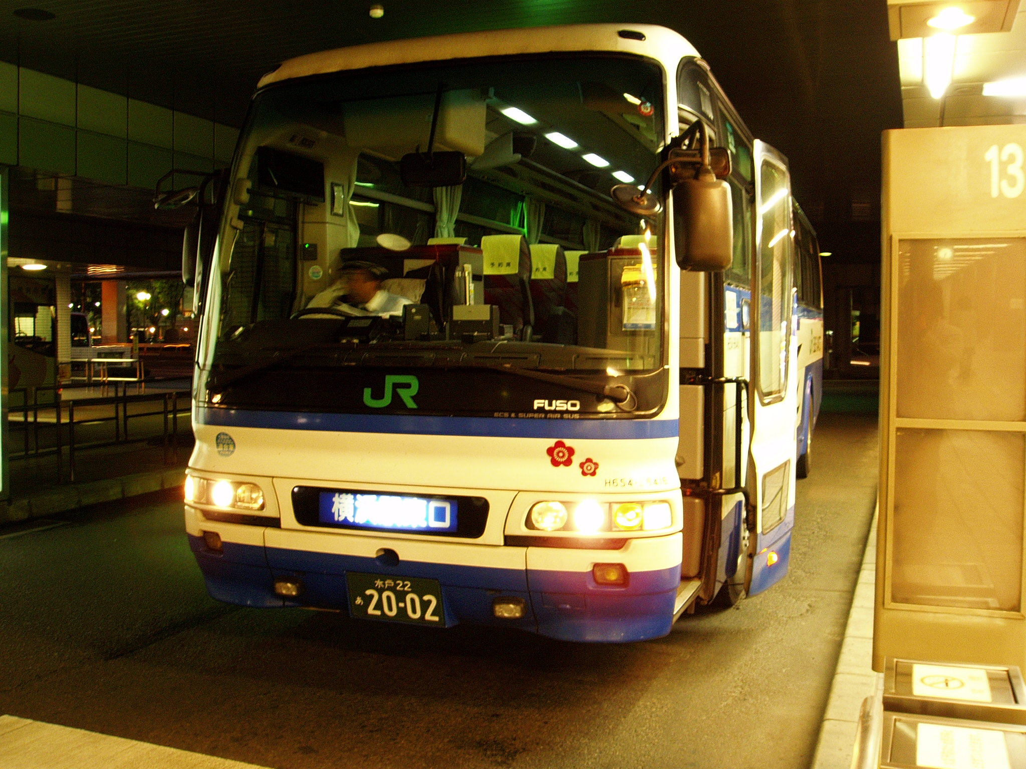 JR Bus Kanto（ジェイアールバス関東）H654-96416 "Bay Liner Mito" Mitsubishi KC-MS822PA 2007.01.20 at Yokohama Sta.(East) Photo by Cassiopeia_sweet.